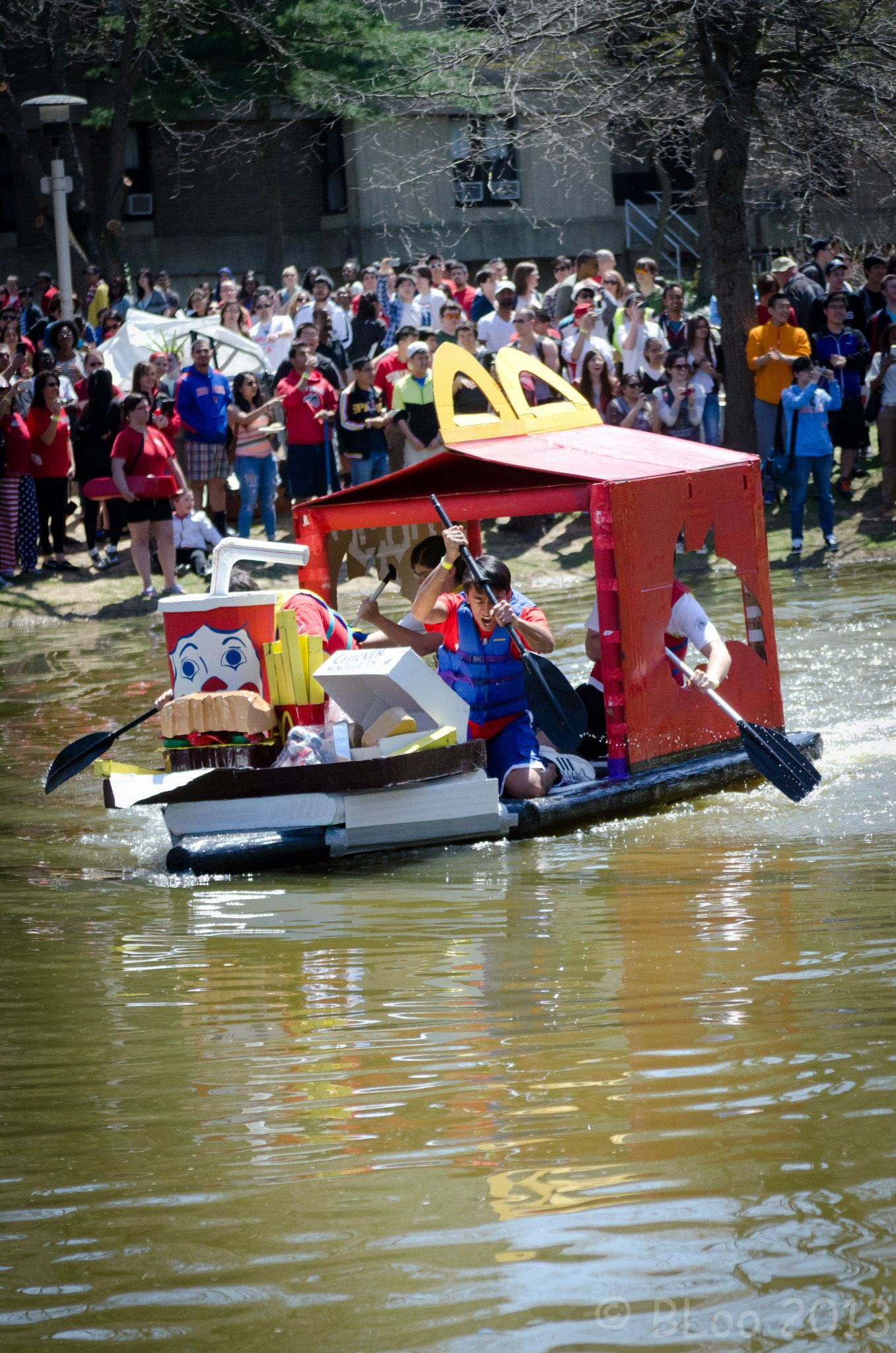 An example of a yacht at the Roth pond regatta